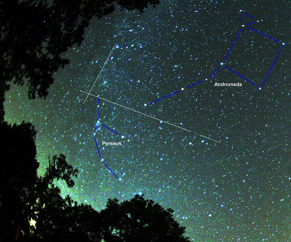 Two perseids meteors and their radiant (crossing of dotted line). Two star constellations are indicated.